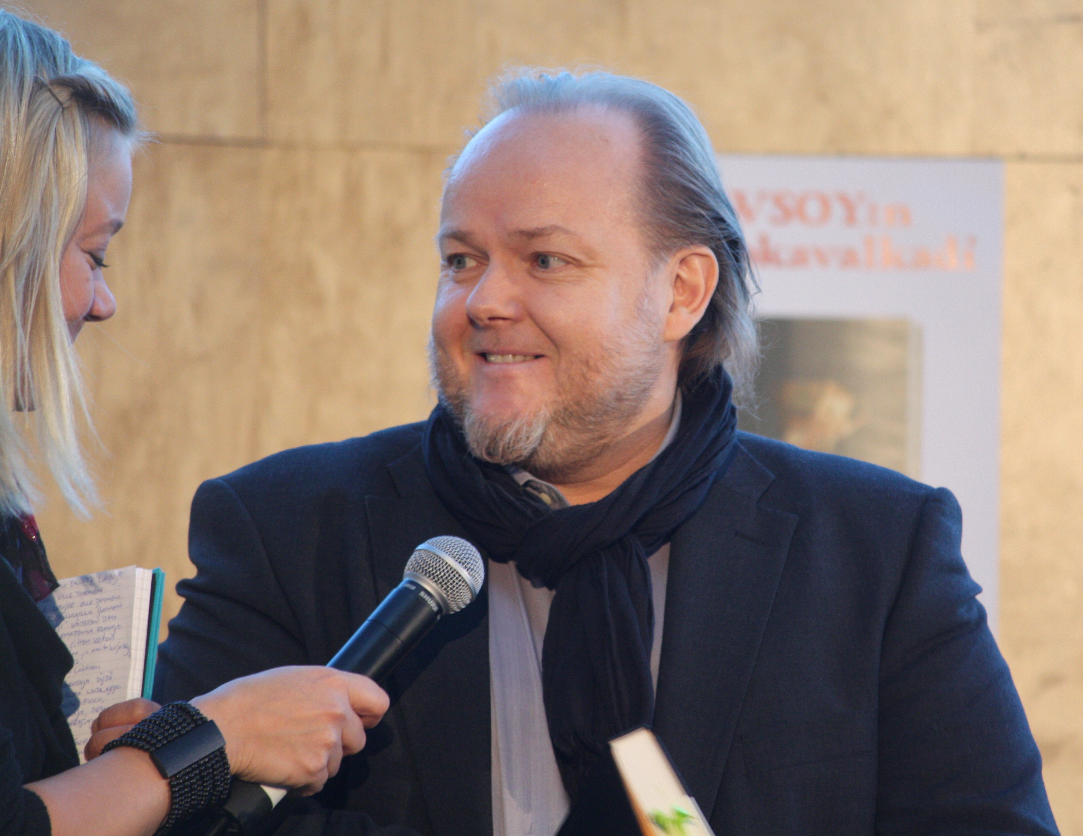 Finnish poet and playwright Jukka Vieno was interviewed by journalist Anna Laine on The Day of Aleksis Kivi and Finnish Literature at Mediatori in Helsinki.